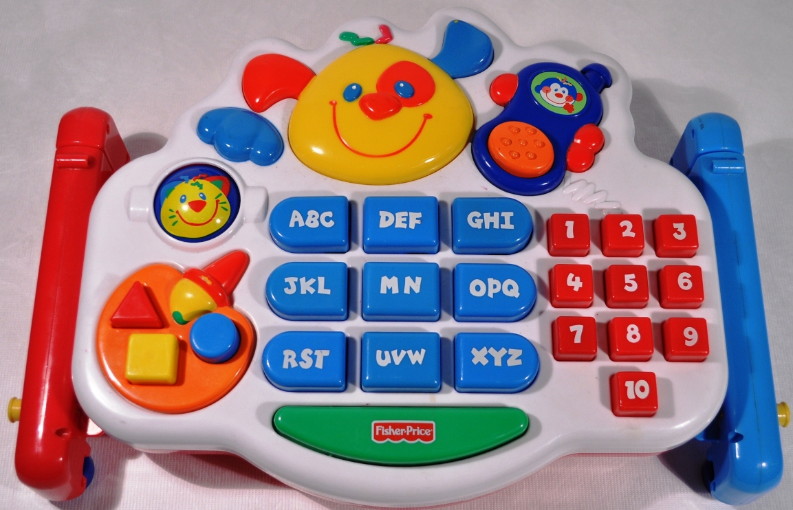 This is a Fisher Price Toy. “Carry On Collecting” is a project set up by the Museum of Hartlepool to collect objects which represent everyday life in the town and beyond, from the 1950s through to the present day. The collection also attempts to represent the diversity of the people of Hartlepool over the past 60 years